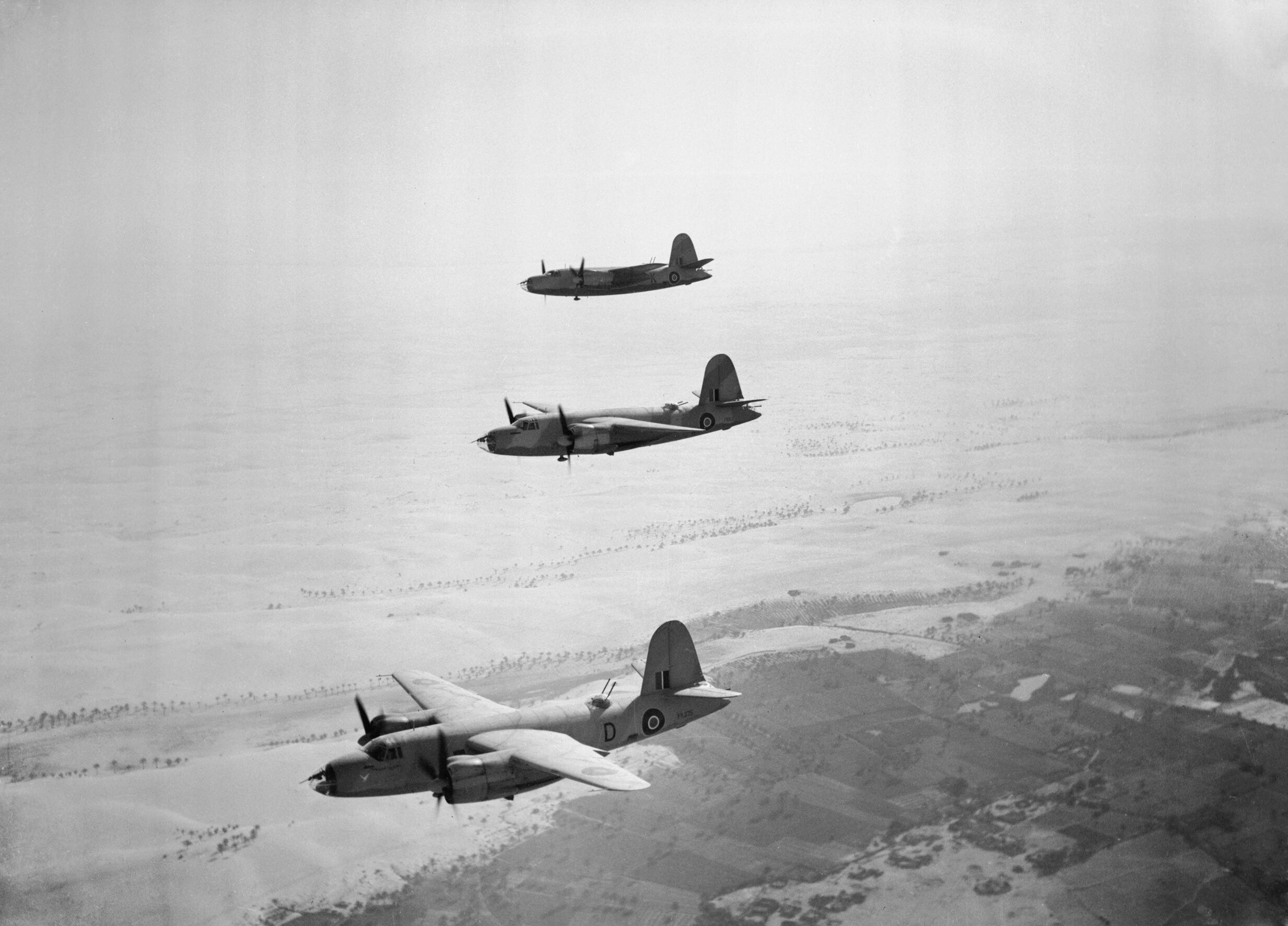 Royal Air Force Operations in the Middle East and North Africa, 1939-1943. Three Martin Marauder Mark Is (FK375 ‘D’ “Dominion Revenge” nearest), of No. 14 Squadron RAF based at Fayid, Egypt, flying in starboard echelon formation.